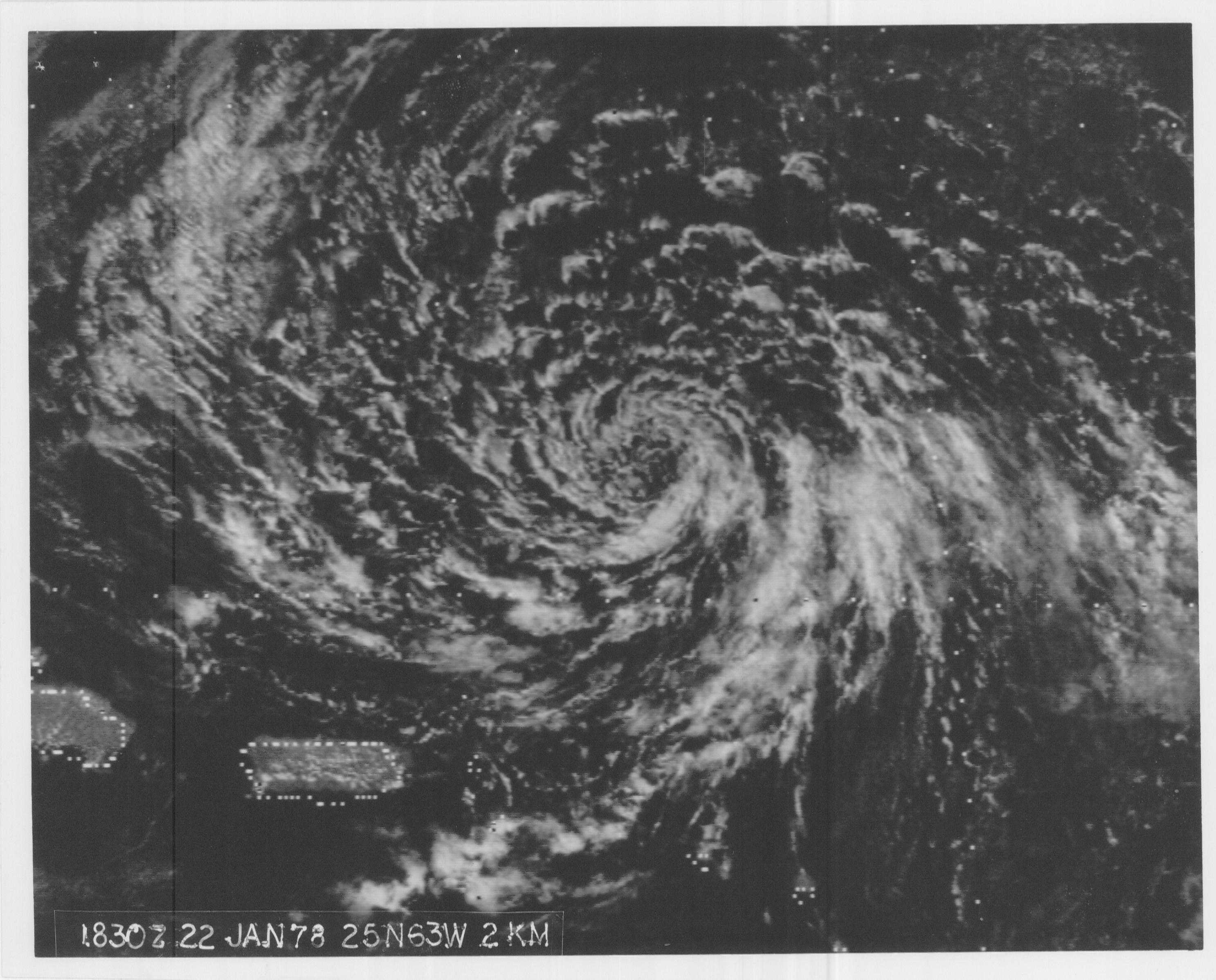 Satellite imagery of rare Subtropical Storm One on January 22, 1978 while dissipating north of the Lesser Antilles